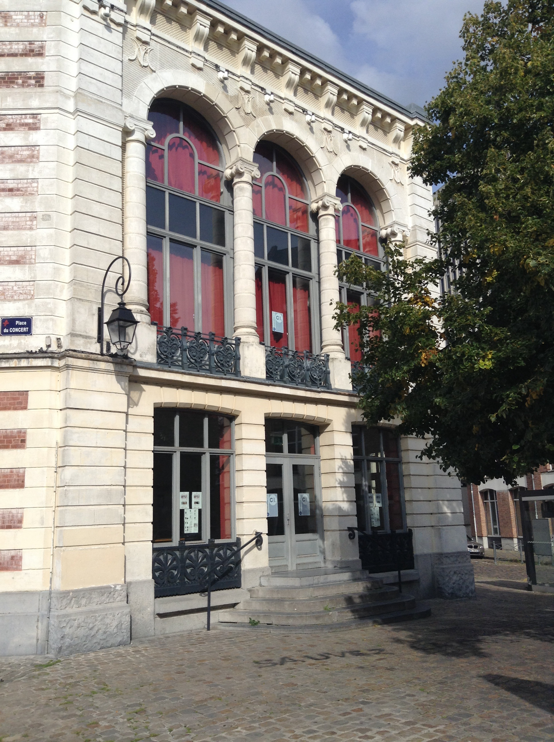 Conservatoire of Lille (France)